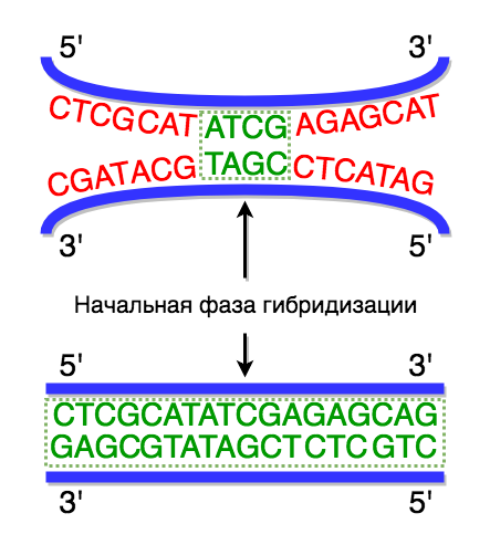 In the first example (above) base-pairing cannot go further because sequences have different bases, pairing is unstable and the strands come apart. In the second example (below) base-pairing continues because sequences are complementary.